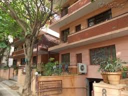 Pic of the apartment complex